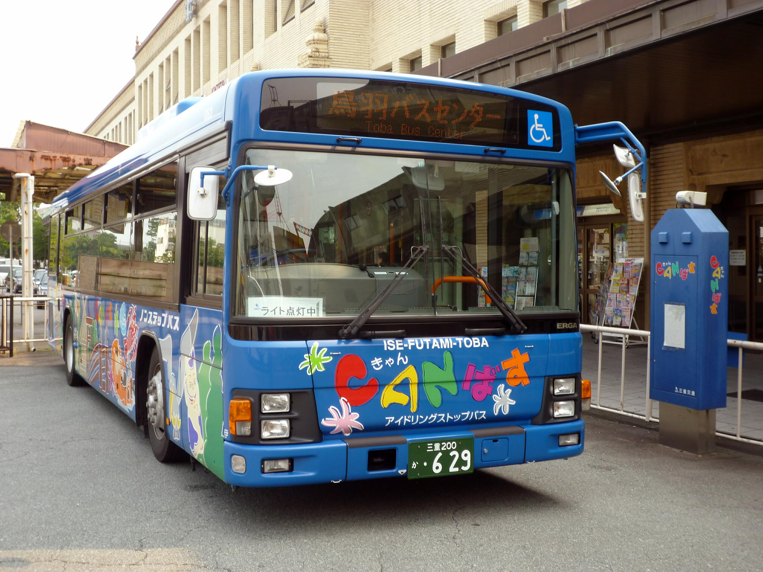 SANCO(Mie Kotsu Co., Ltd.) CAN-bus in Ujiyamada Station.